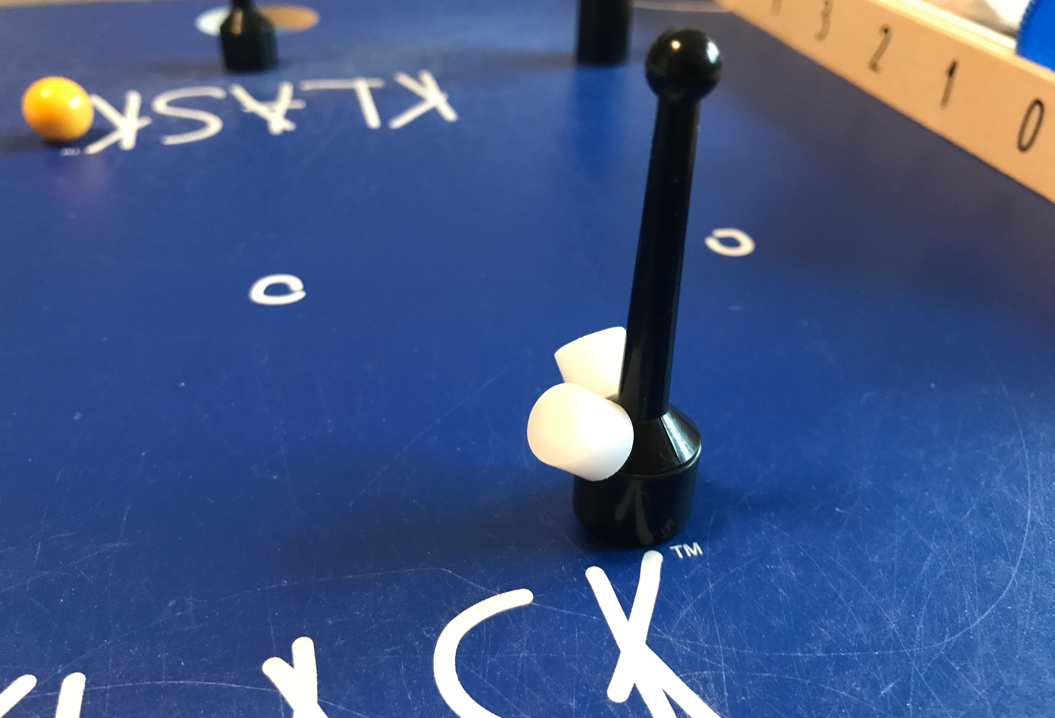 KLASK - danish physical-skill game (Game Factory)